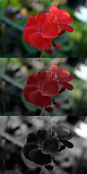 Simulation of mesopic and scotopic visual appearance from a photopic (full-color) original of a red geranium with greenery and blue in the background, to illustrate the Purkinje effect or Purkinje shift